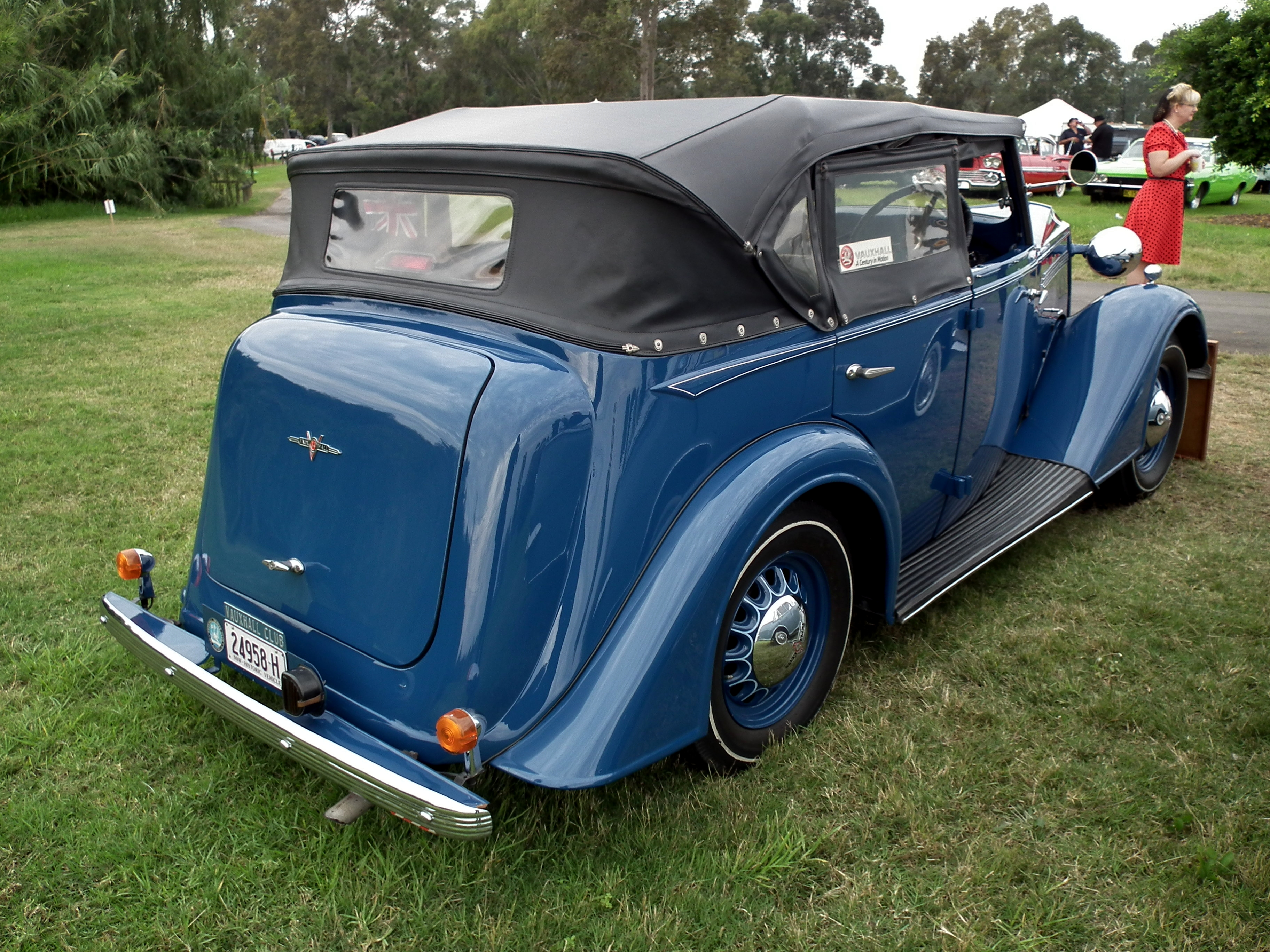 1937 Vauxhall DX 14hp tourer. Bodywork by Holden. Taken at the General Motors Display Day, held in the grounds of Penrith Panthers Club, Penrith NSW.